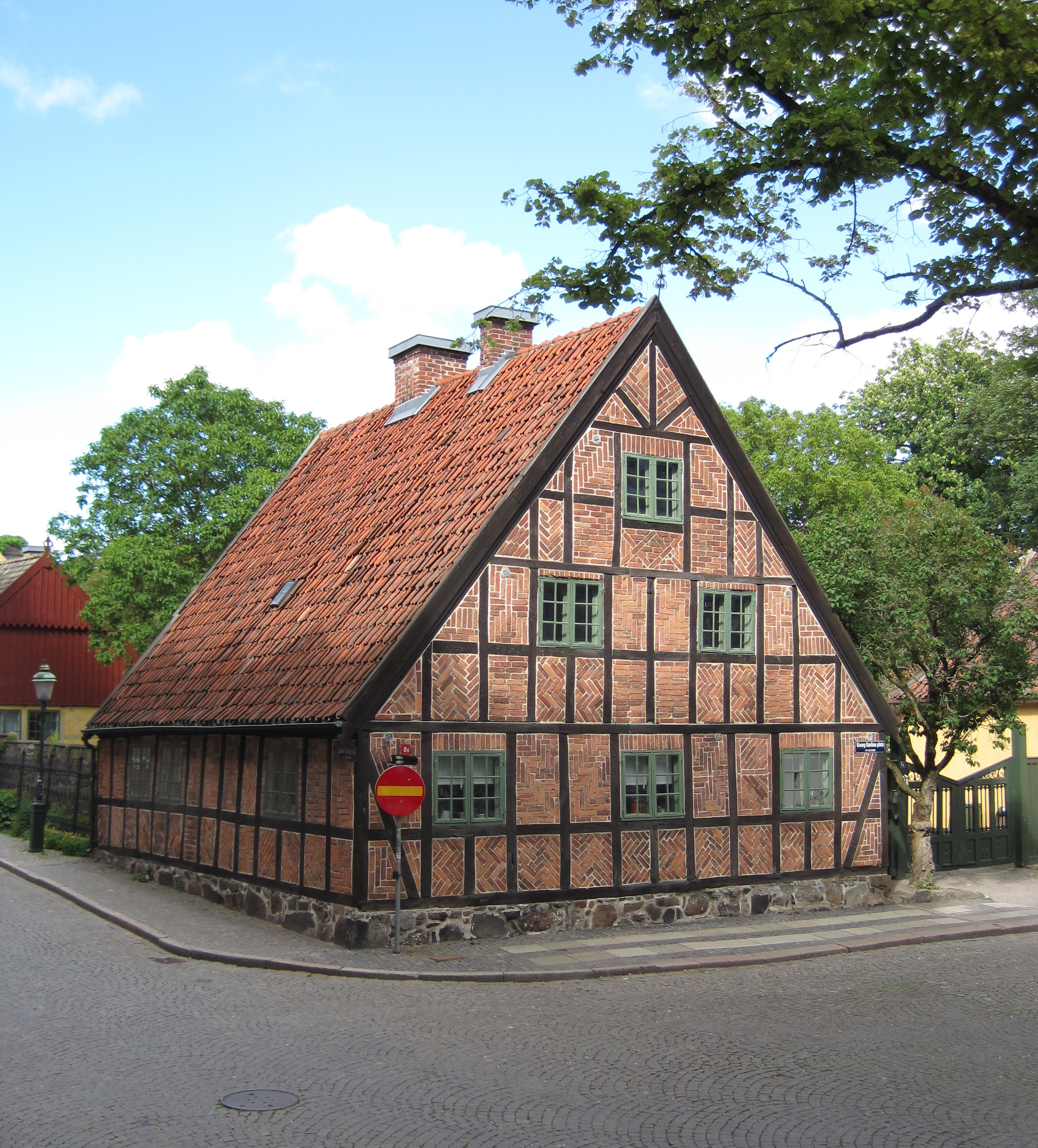 Locus Peccatorum (Swedish: "Syndernas hus"